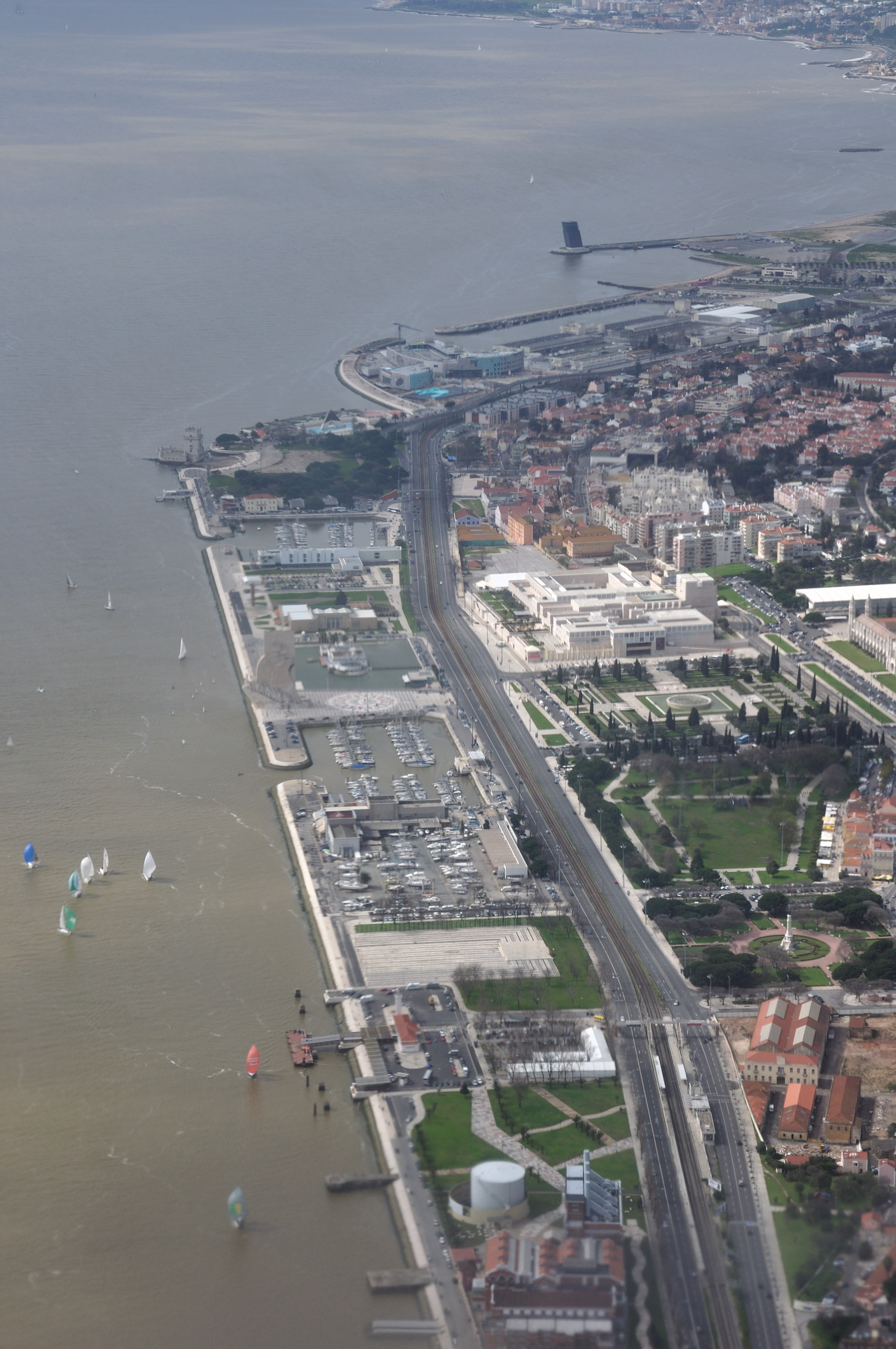 Portugal, Approach into Lisbon